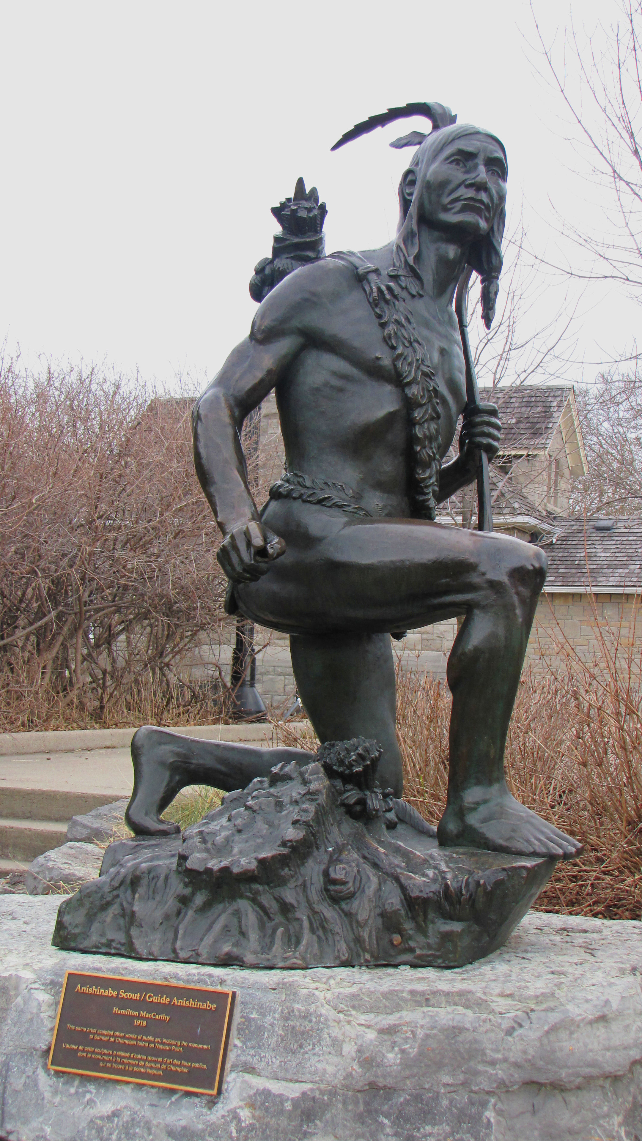 "Kitchi Zibi Omàmìwininì", statue by Hamilton MacCarthy, 1918, Major's Hill Park, Ottawa, Ontario, Canada. Was once at the base of a statue to Samuel de Champlaign at Nepean Point, Ottawa. Renamed in 2013 by Algonquin Anishinabe elder Annie Smith St. Georges